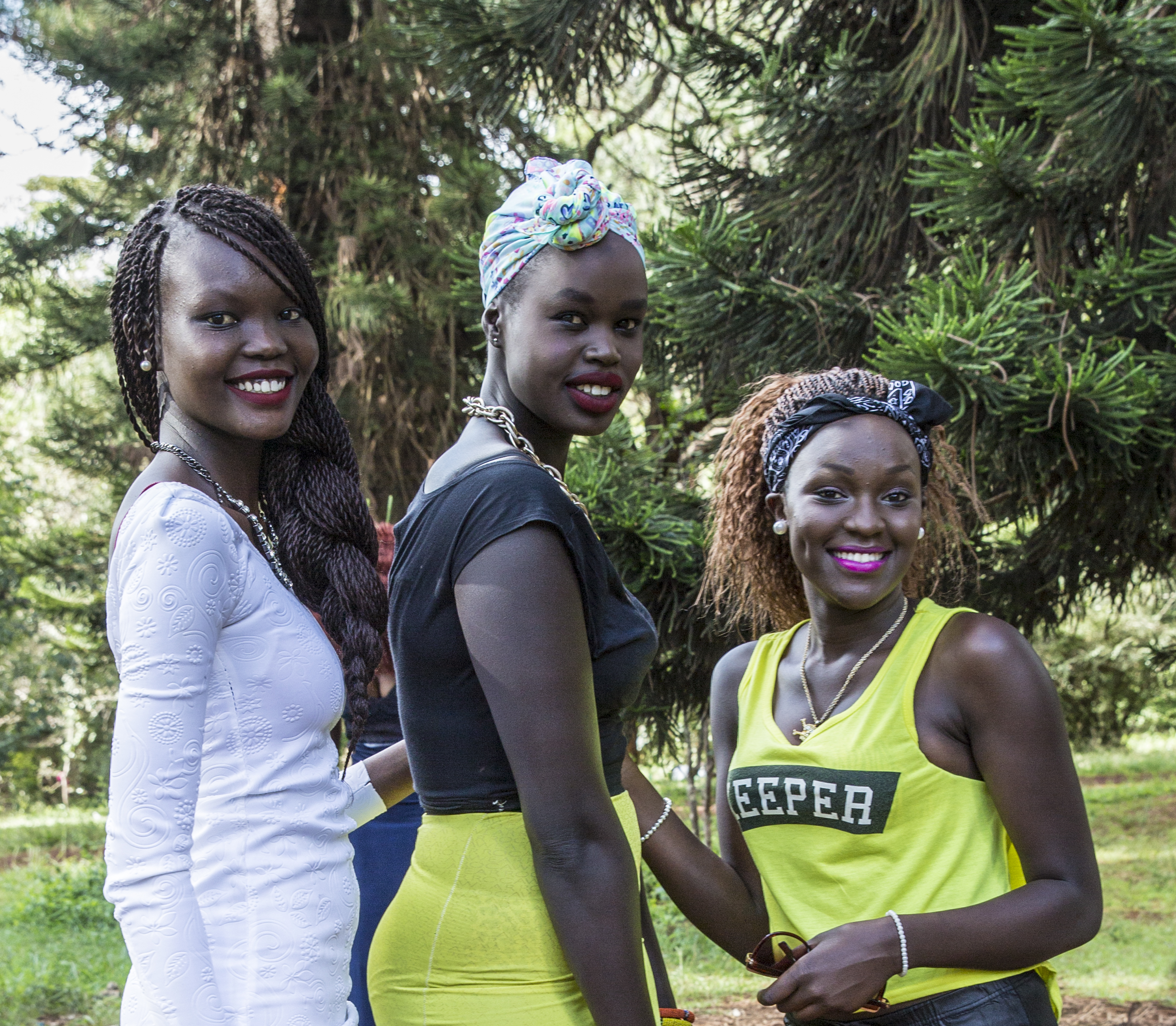 Kenyan Women in Nairobi